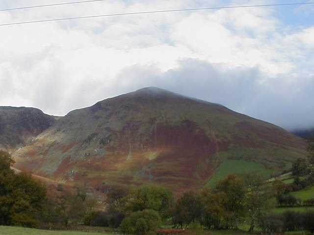 Gwaun y Llwyni from Cwm Cywarch